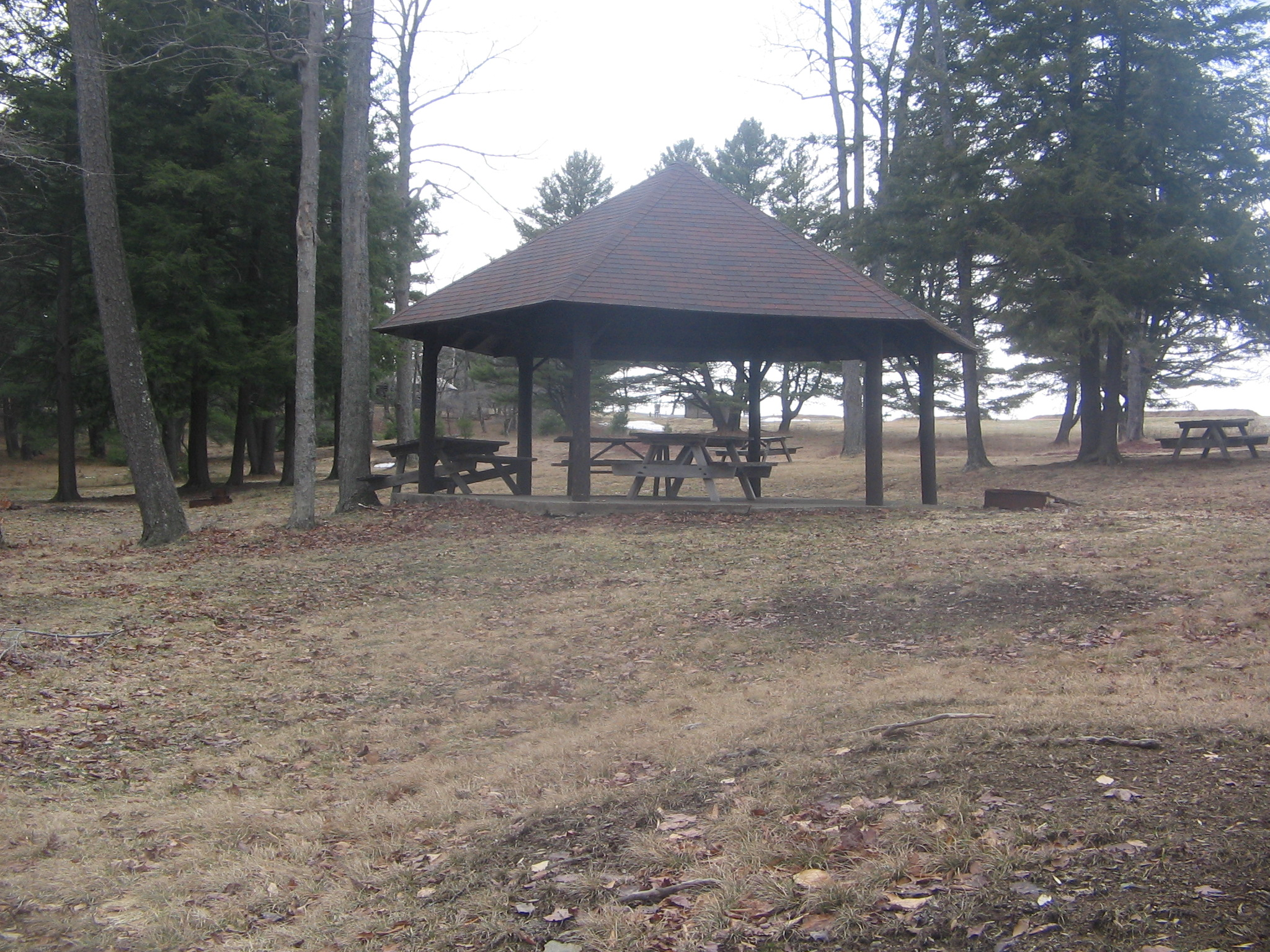 Small hexagonal picnic pavilion in the camping area at Cherry Springs State Park, West Branch Township, Potter County, Pennsylvania, USA. Park office is in background. Almost certainly built by the Civilian Conservation Corps.